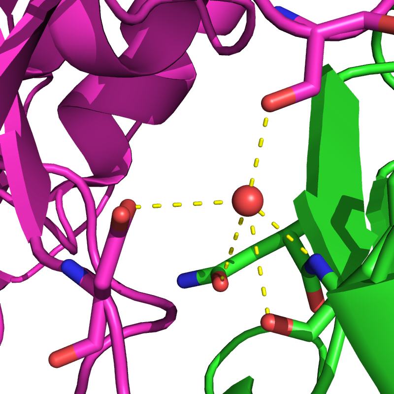 Water mediated hydrogen bonds play a key role in protein-protein binding between GP120 and the broadly neutralizing antibody GP120. One such interation is shown between residues D457, S365 in the heavy chain of the broadly neutralizing antibody VRC01 (green) and residues N58 and Y59 in the HIV envelope protein GP120 (purple). Zhou, Tongqing, et al. "Structural basis for broad and potent neutralization of HIV-1 by antibody VRC01." Science 329.5993 (2010): 811-817.